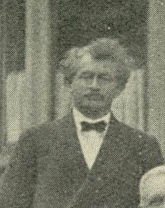 Neil Maclean in 1922, while at a meeting of the executive of the Workers' Union